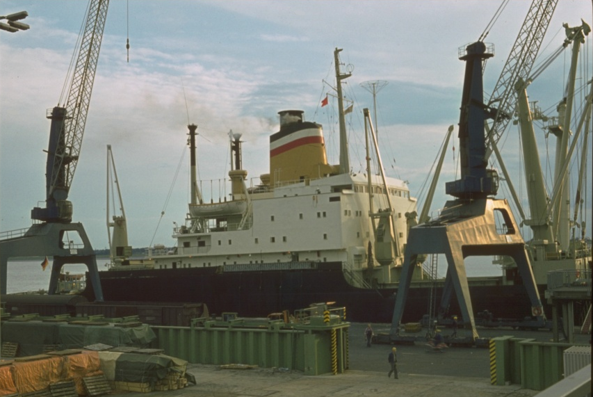 Cranes and heavy lift on cargo vessel MV Bayernstein (HALO) - 1970/71